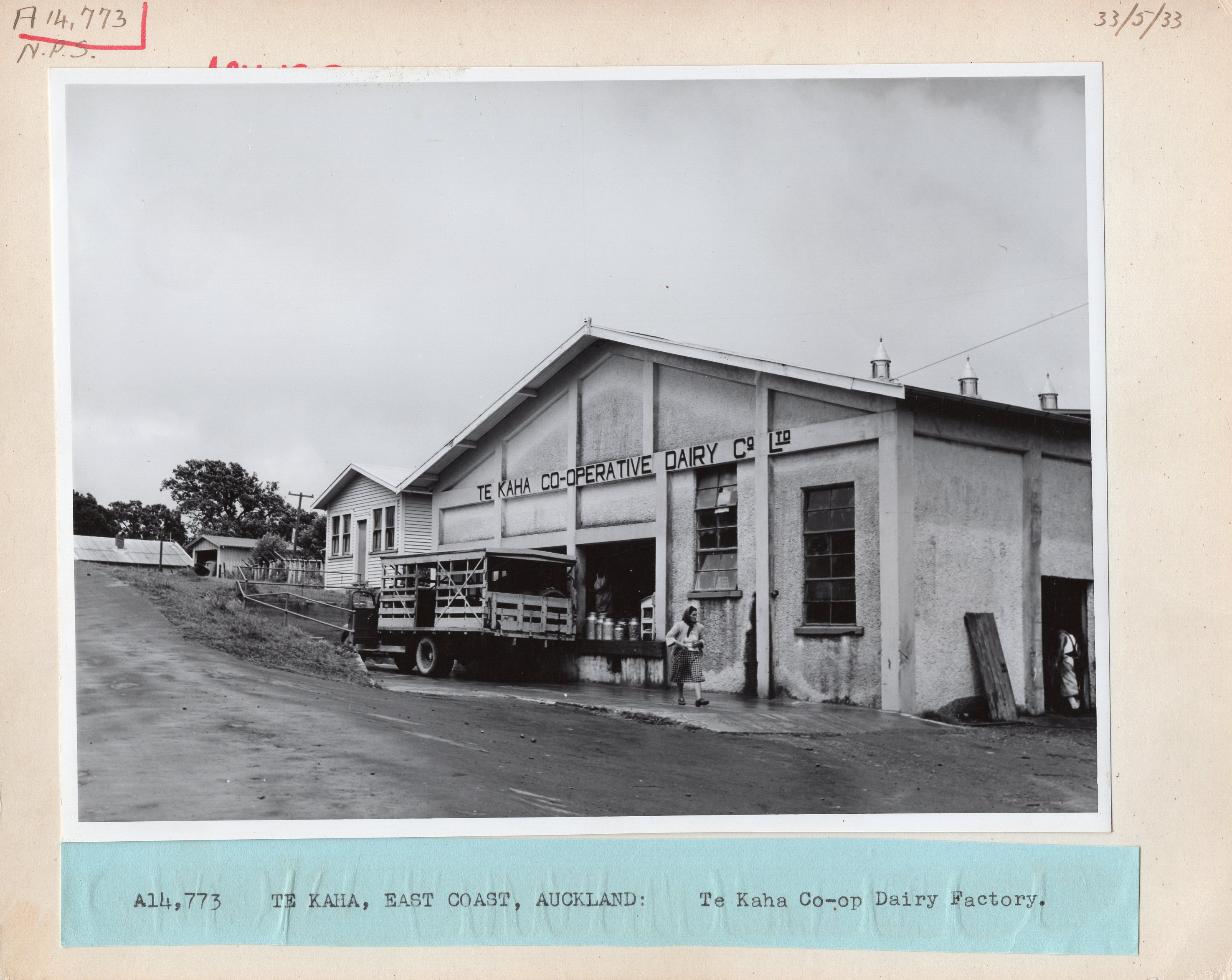 Archives New Zealand Reference: AAFZ 6329 W3302 Box 49